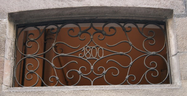 Carme Street, Barcelona